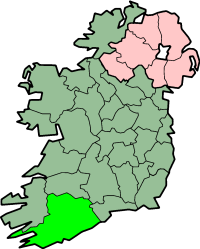 County Cork map in Ireland. 08:03, 5 February 2004 Morwen 200x249 (30296 bytes) (map)